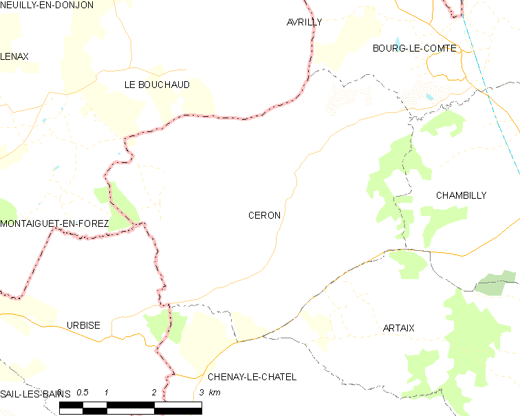 Map of French municipality